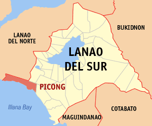 Map of the Lanao del Sur showing the location of Picong